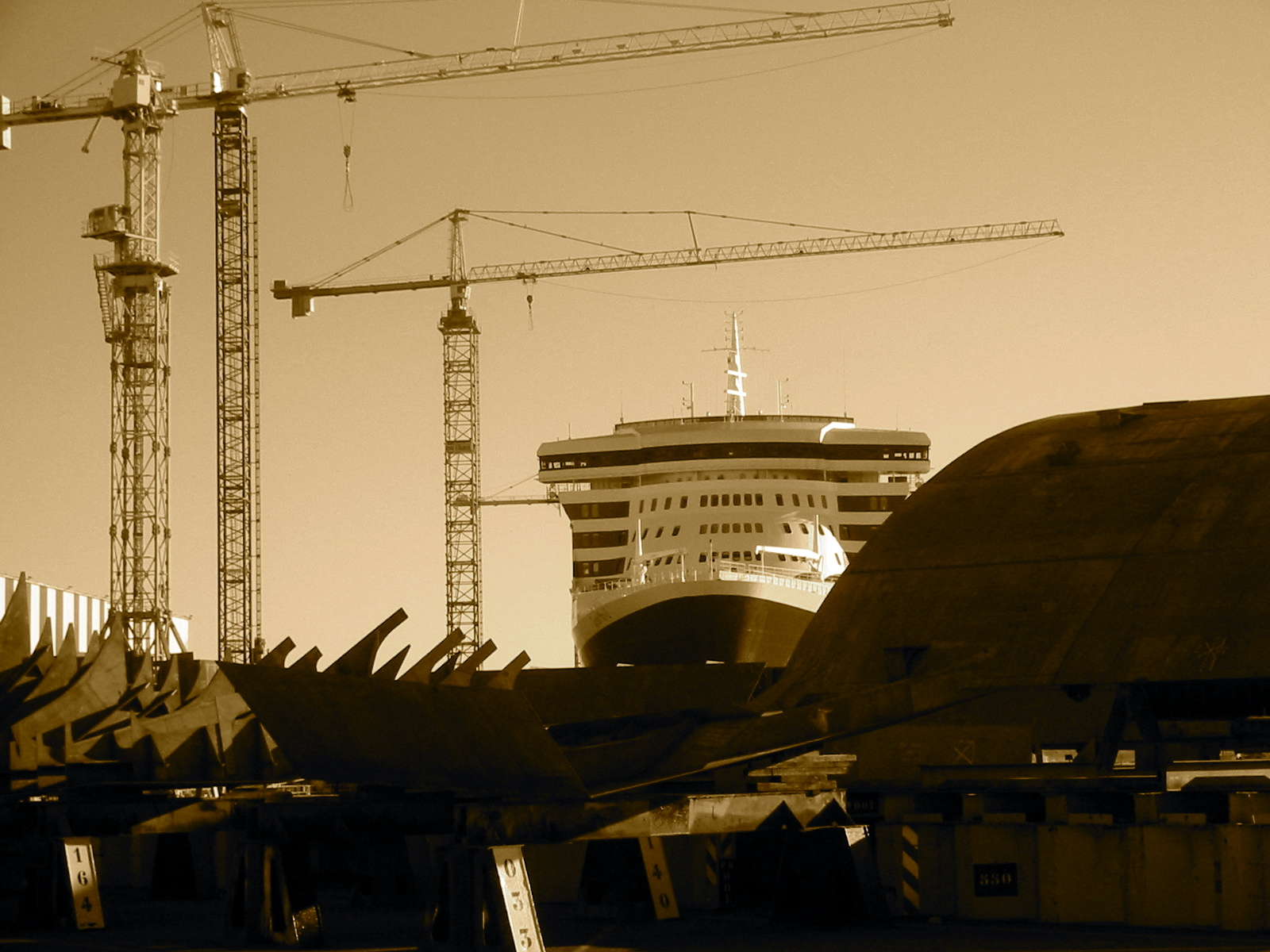 The passenger ship Queen Mary 2 in construction in Saint-Nazaire, France December 2003